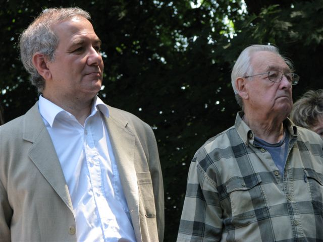 Tomasz Fiałkowski (b. 1955), Polish journalist, essayist and editor and Andrzej Wajda (1926-2016), Polish film director